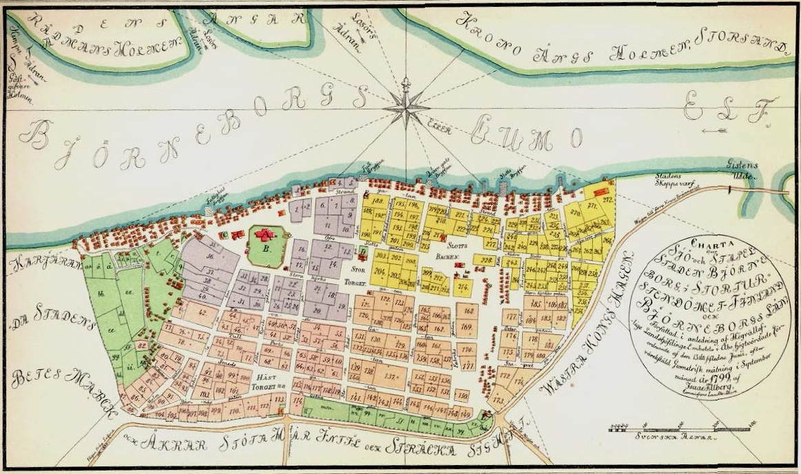 1799 map of Pori, Finland by Isaac Tillberg (1763-1830).